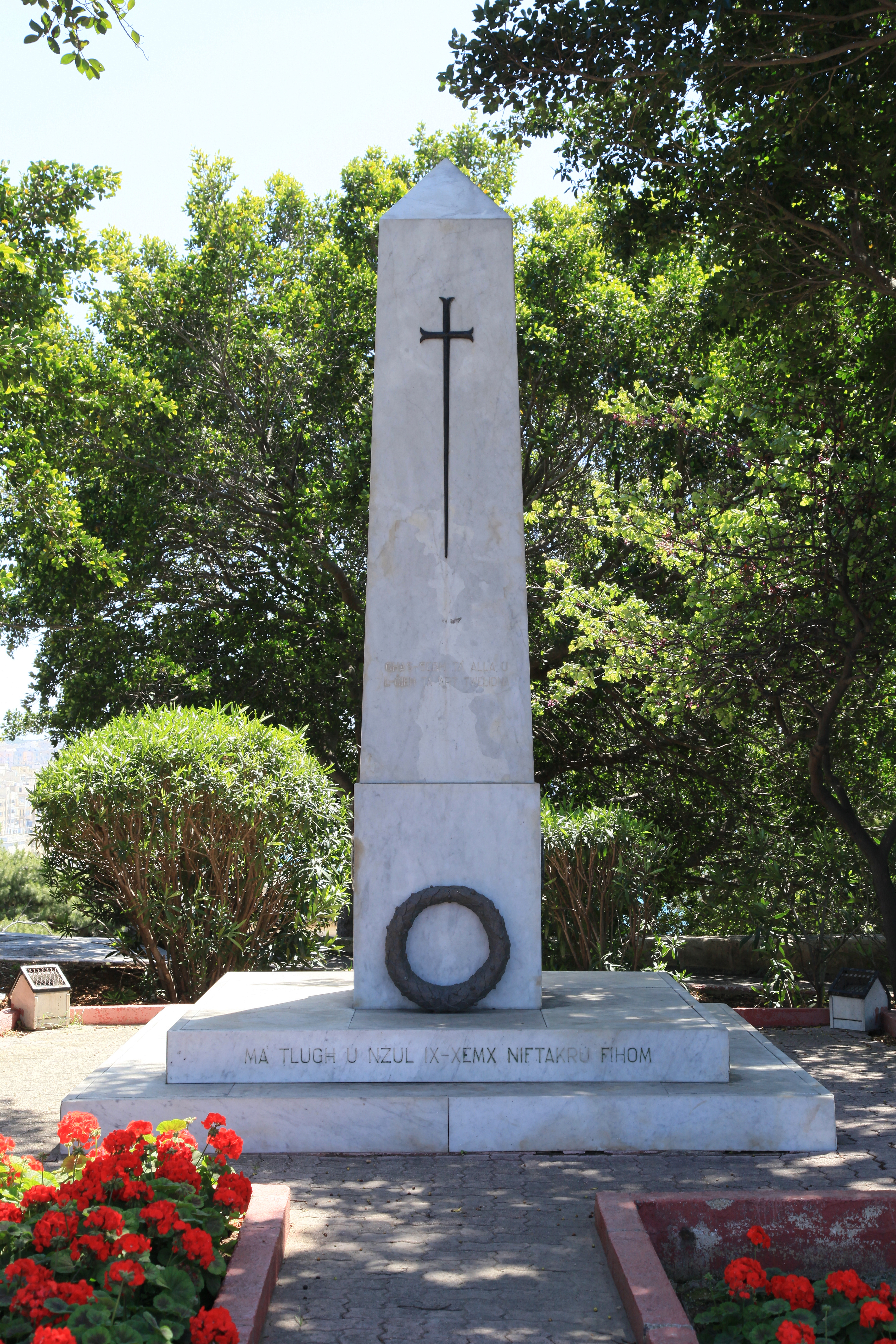 KOMR Memorial at Triq Sant' Anna in Floriana, Malta